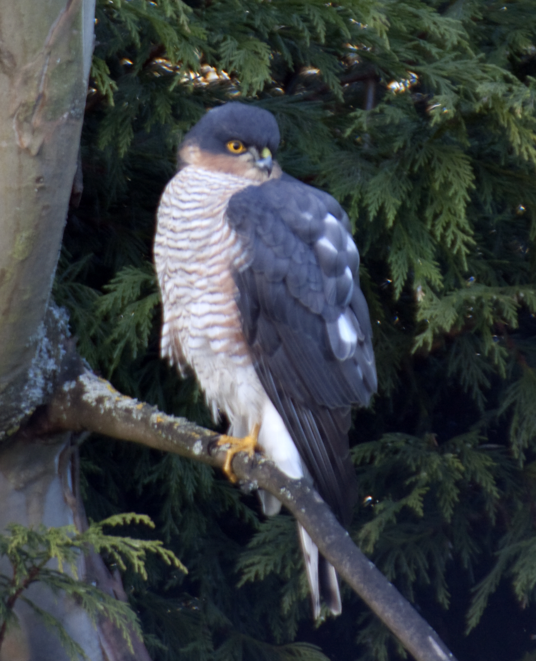 Sparrowhawks are infrequent visitors to our garden